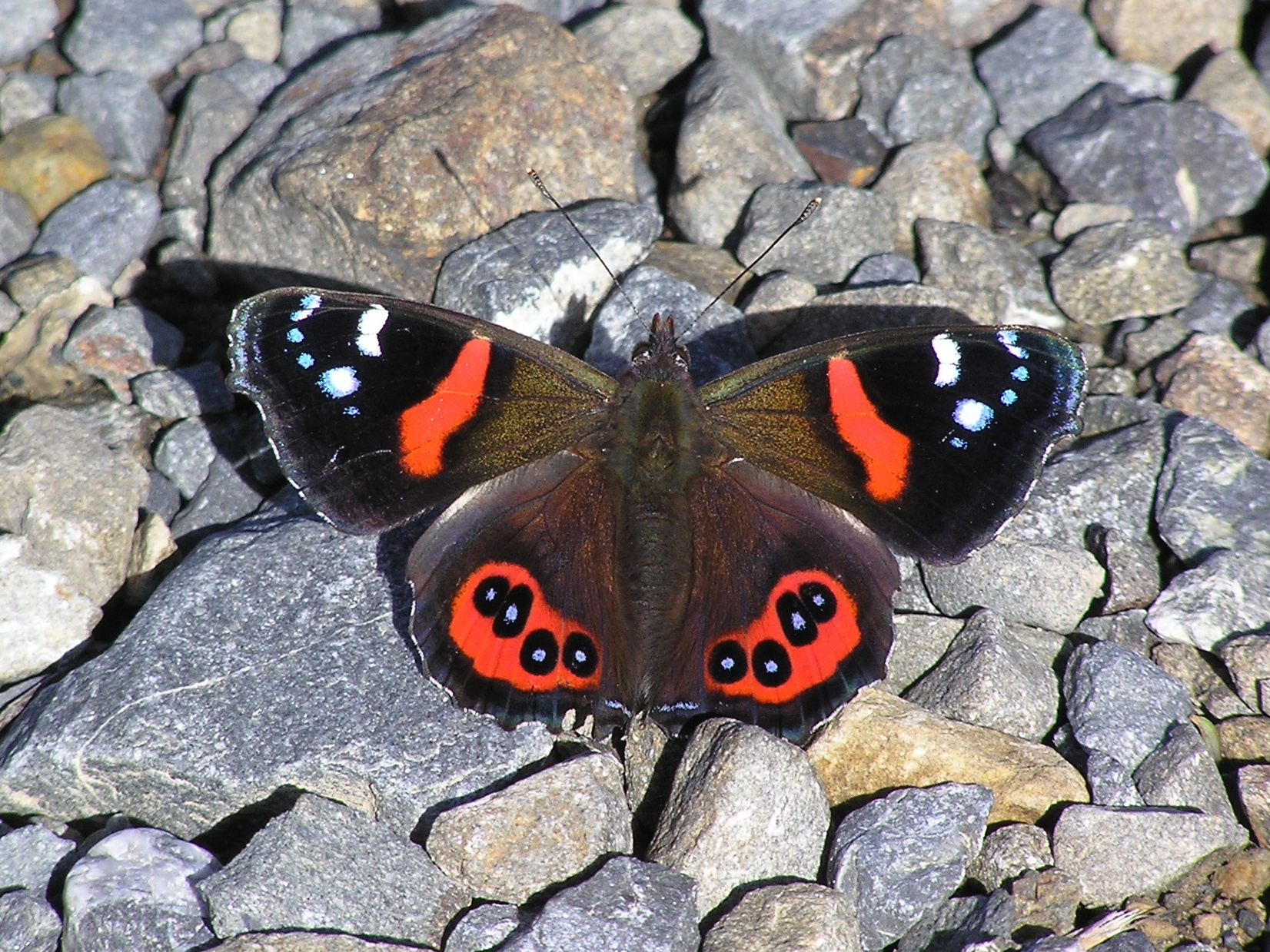 NZ Red Admiral Butterfly in Wellington, New Zealand Māori: Kahukura